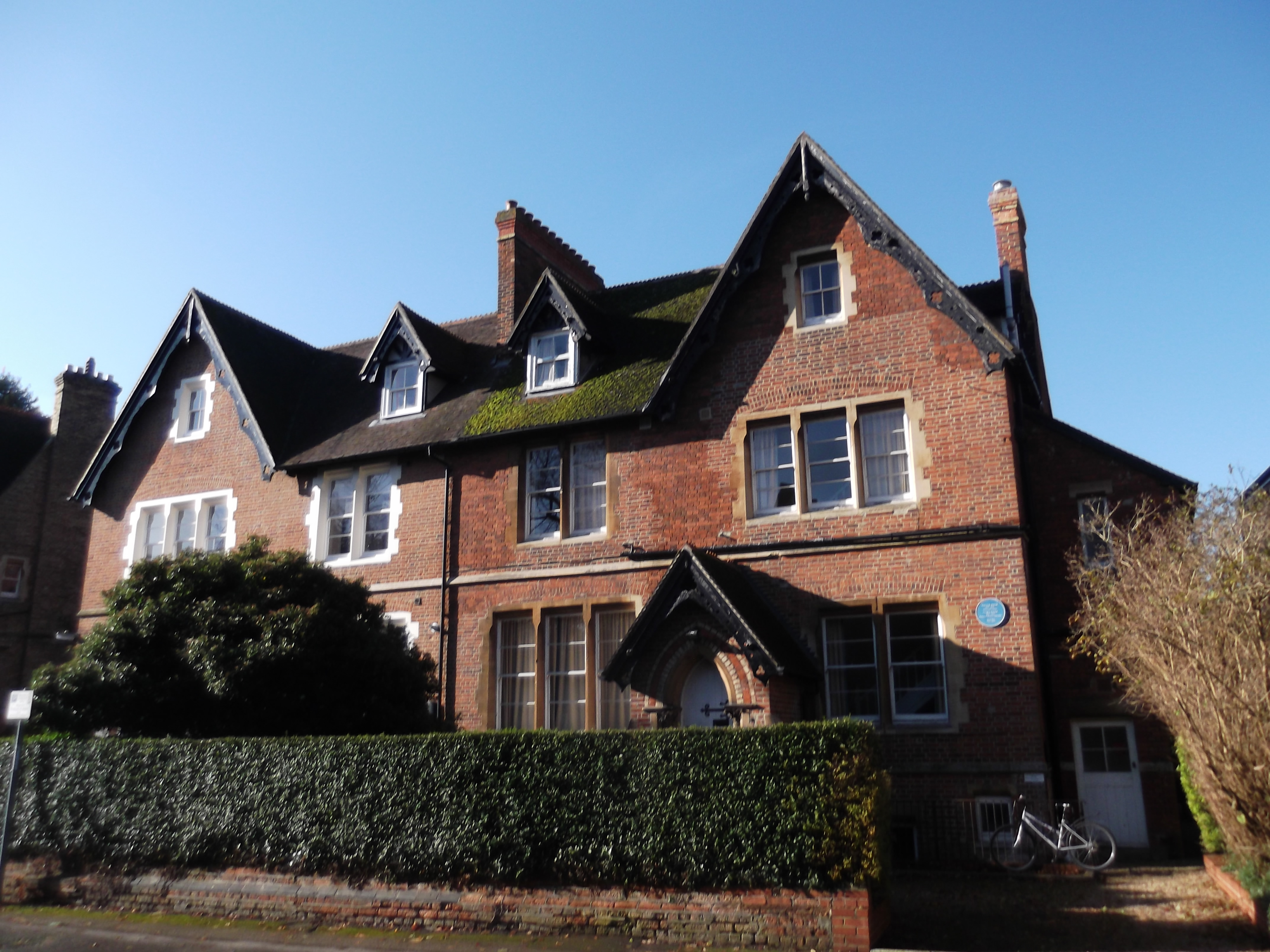 Street in north Oxford, England.